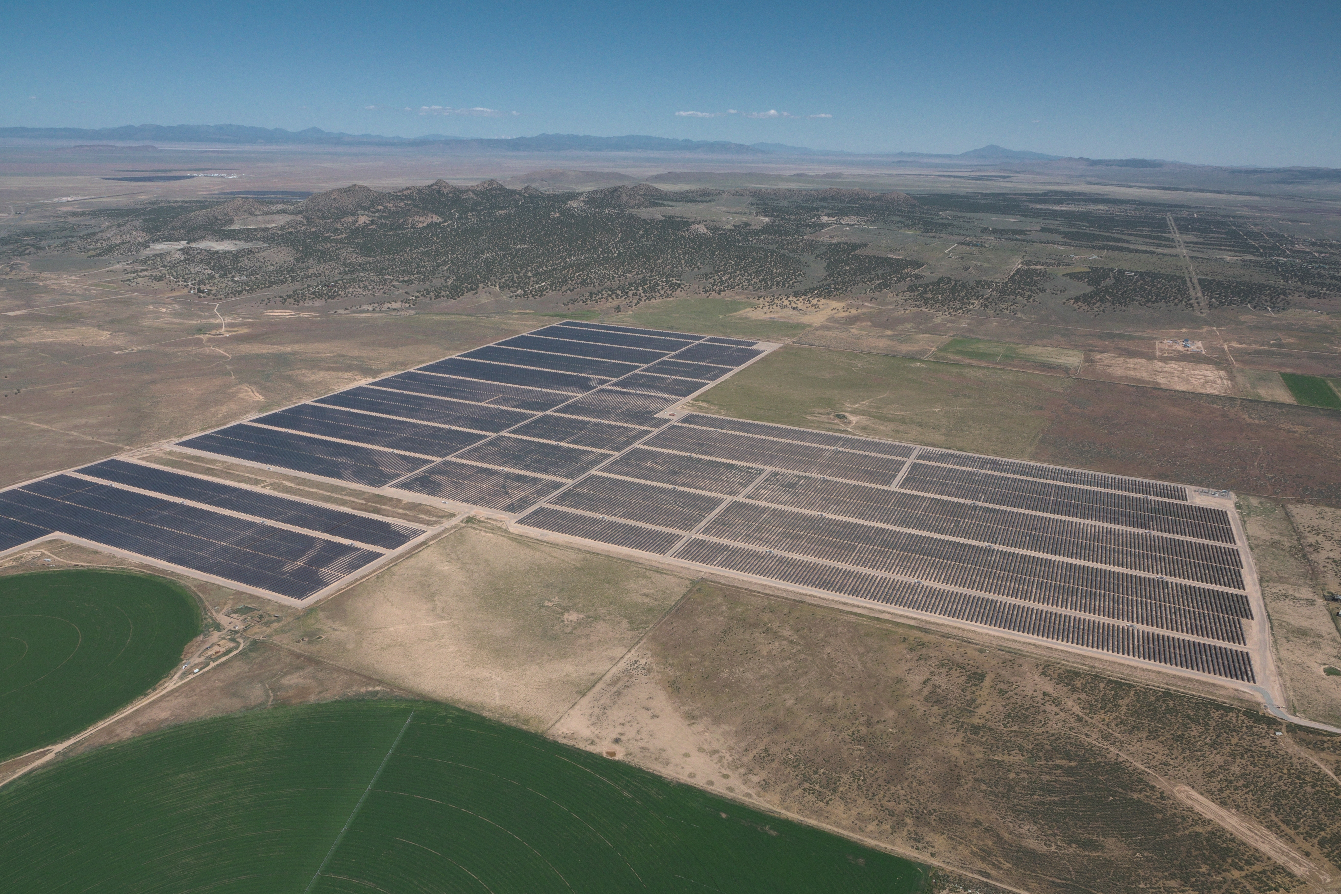 Aerial view of Three Cedars Solar Project, Cedar City, Utah